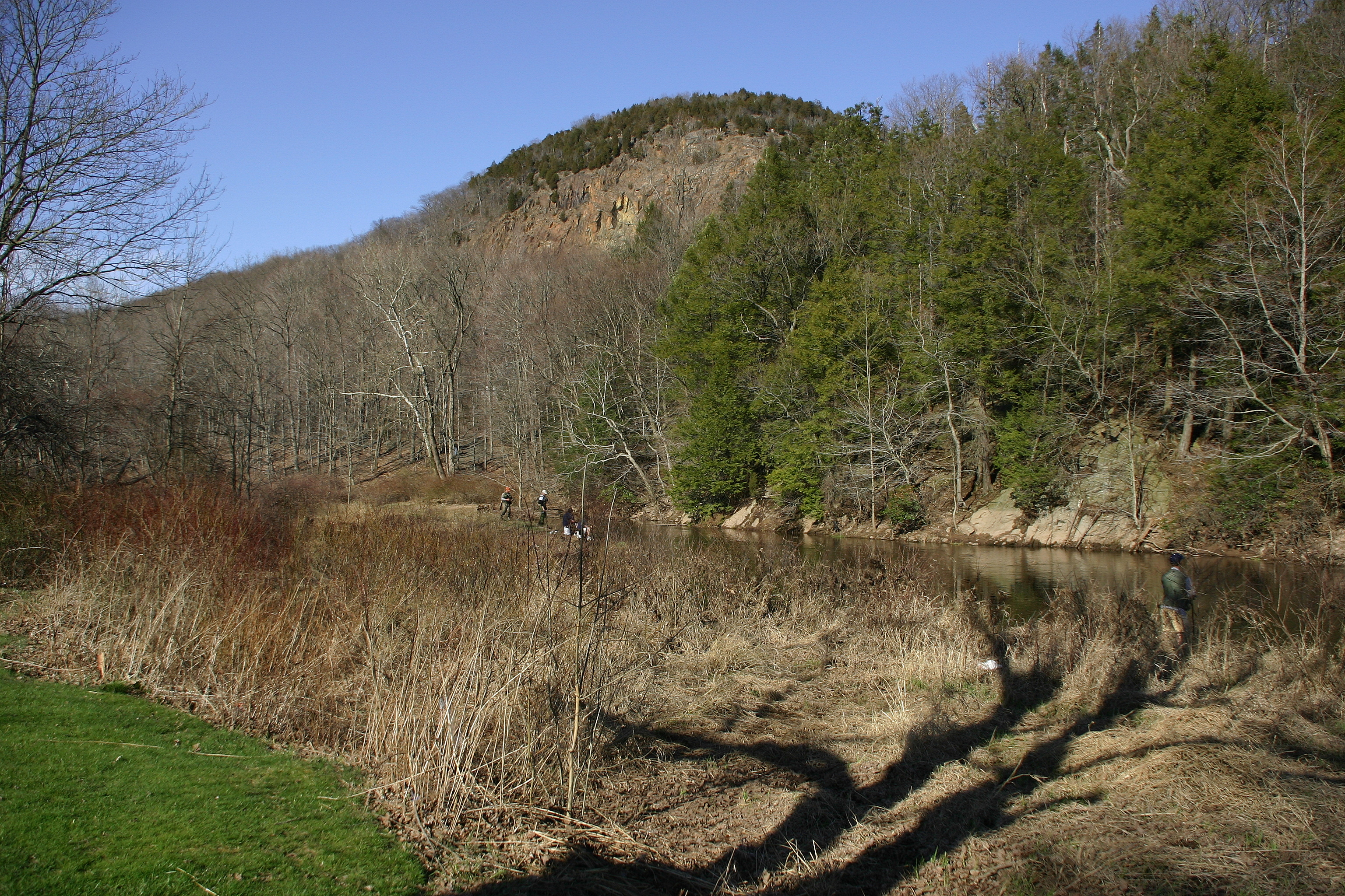 Mill River Hamden, CT. Sleeping Giant Mountain pictured in the background, 4/21/07 - First Day of Fishing Season. Photo by Geoff Fox.